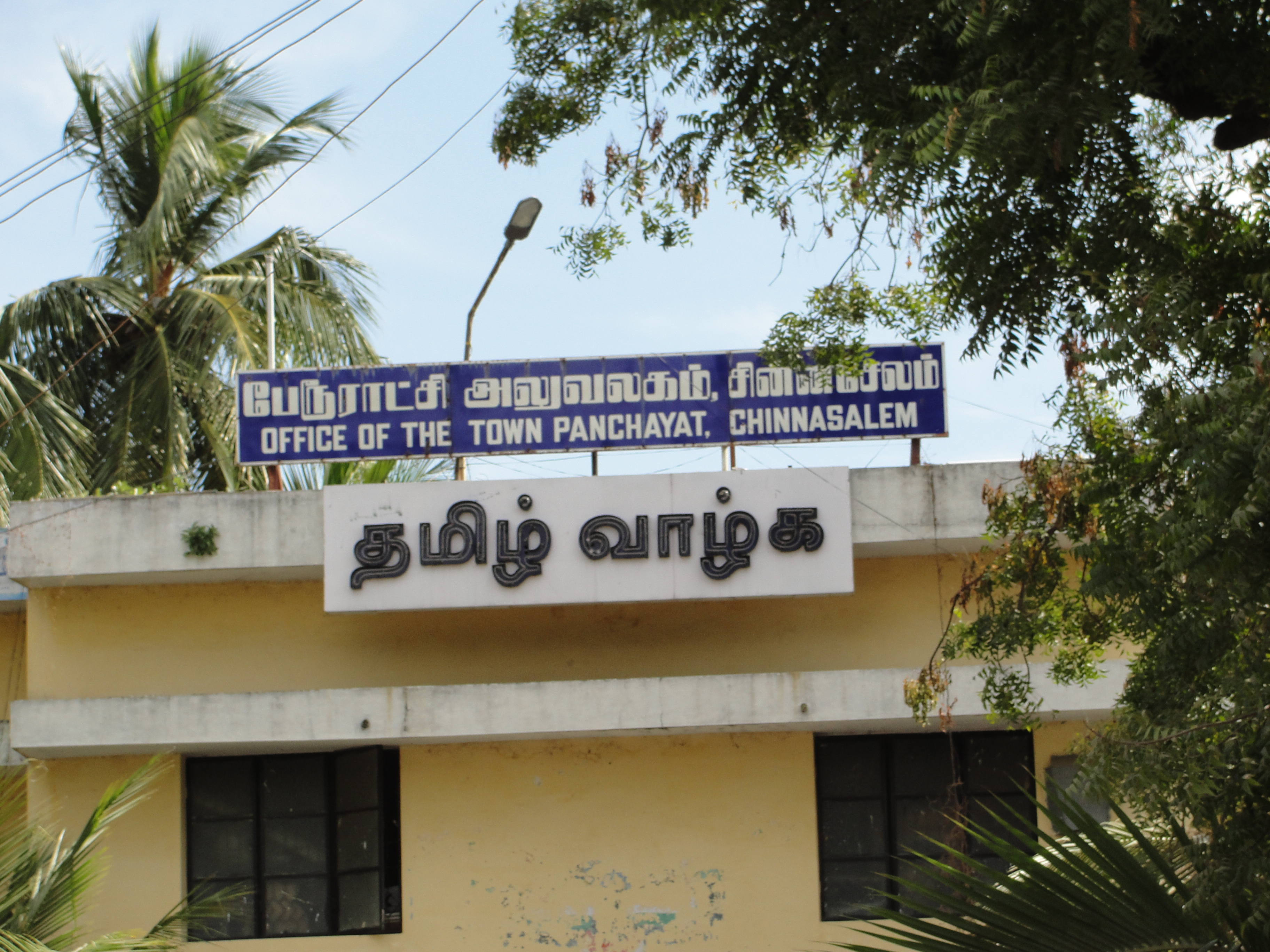 Chinna salem Town Panchayat office